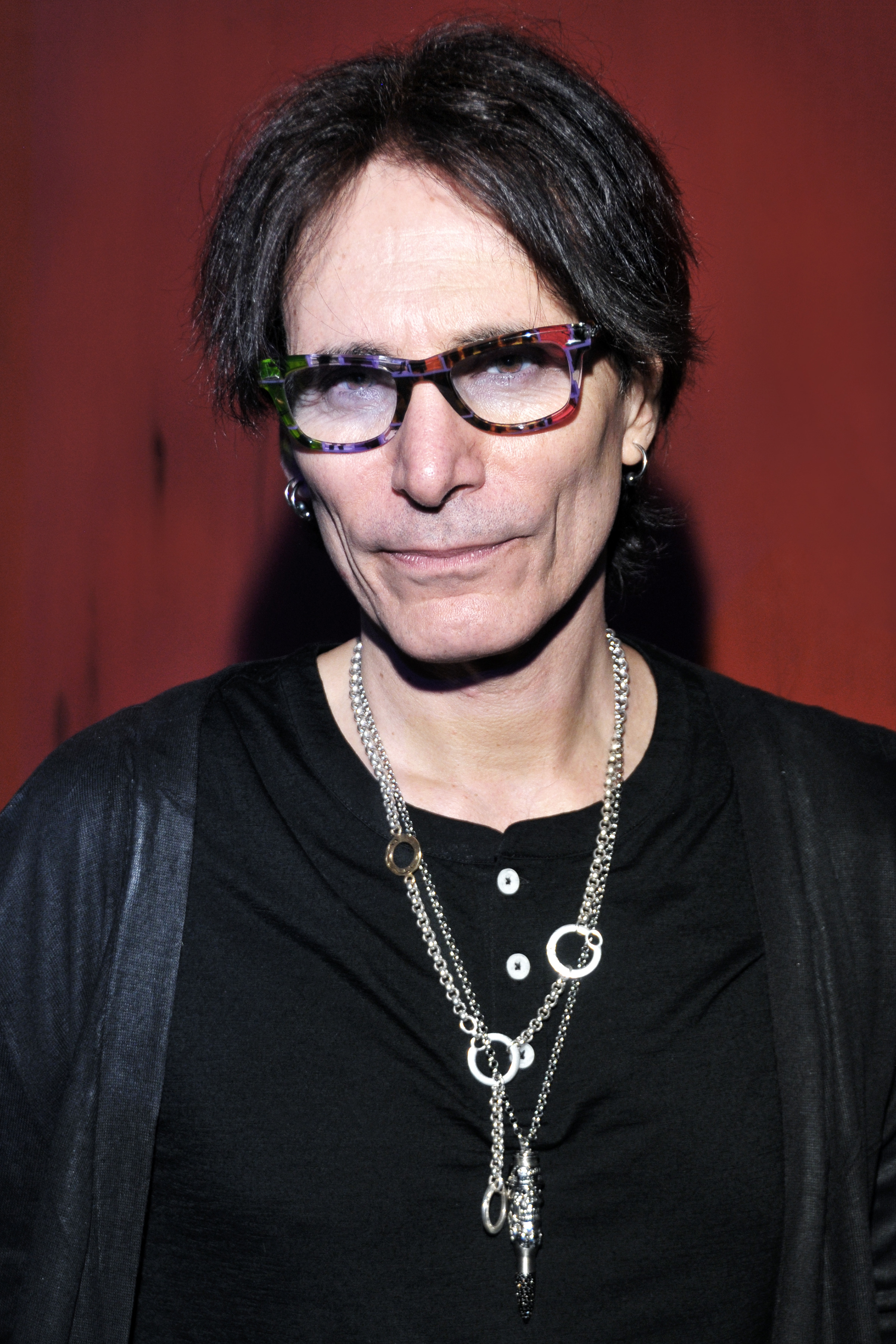 Steve Vai in Hollywood California on November 25, 2015 - Photo by Glenn Francis of